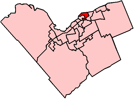 Map showing Rideau-Rockcliffe